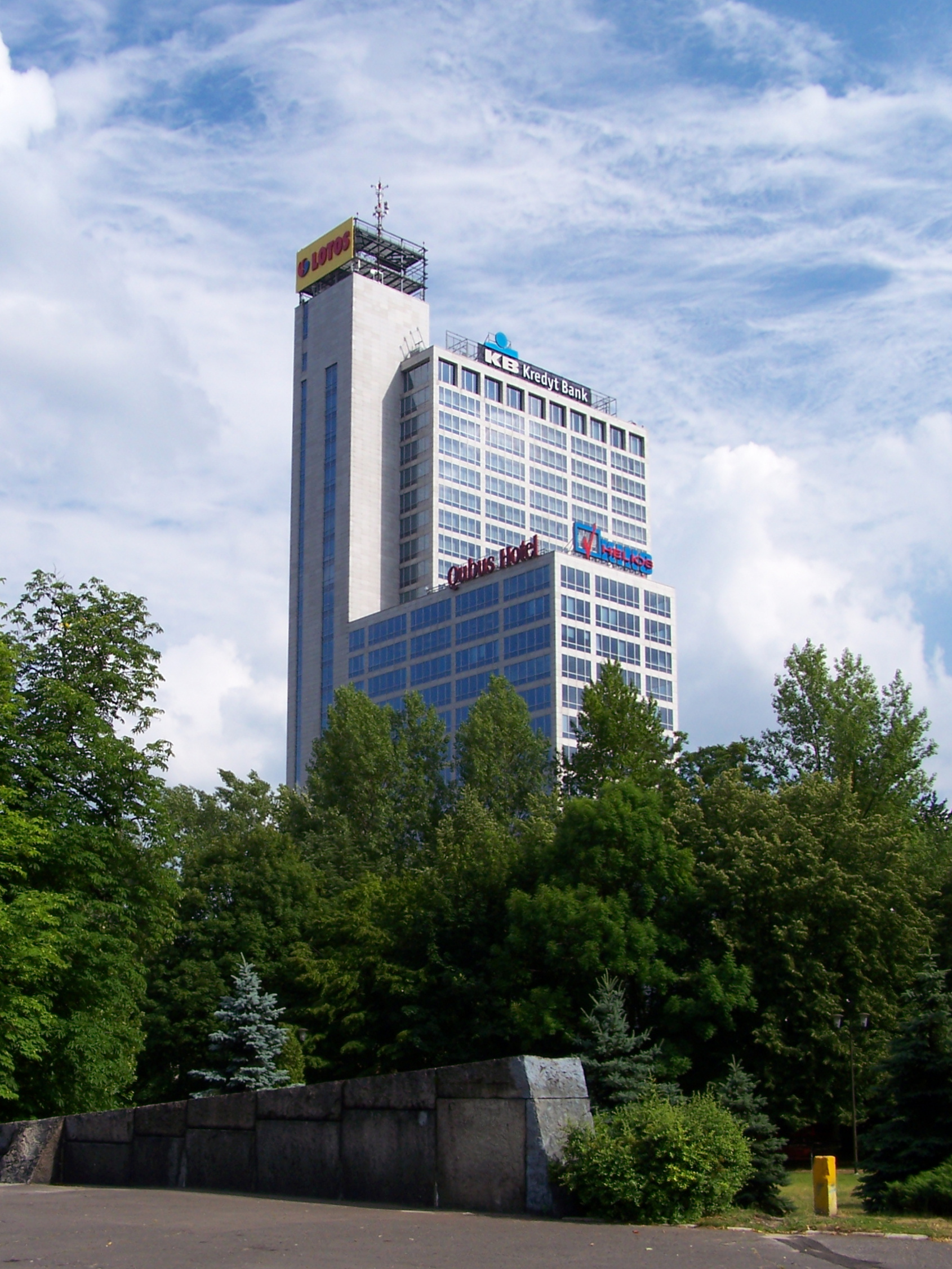 Altus Skyscraper in Katowice.